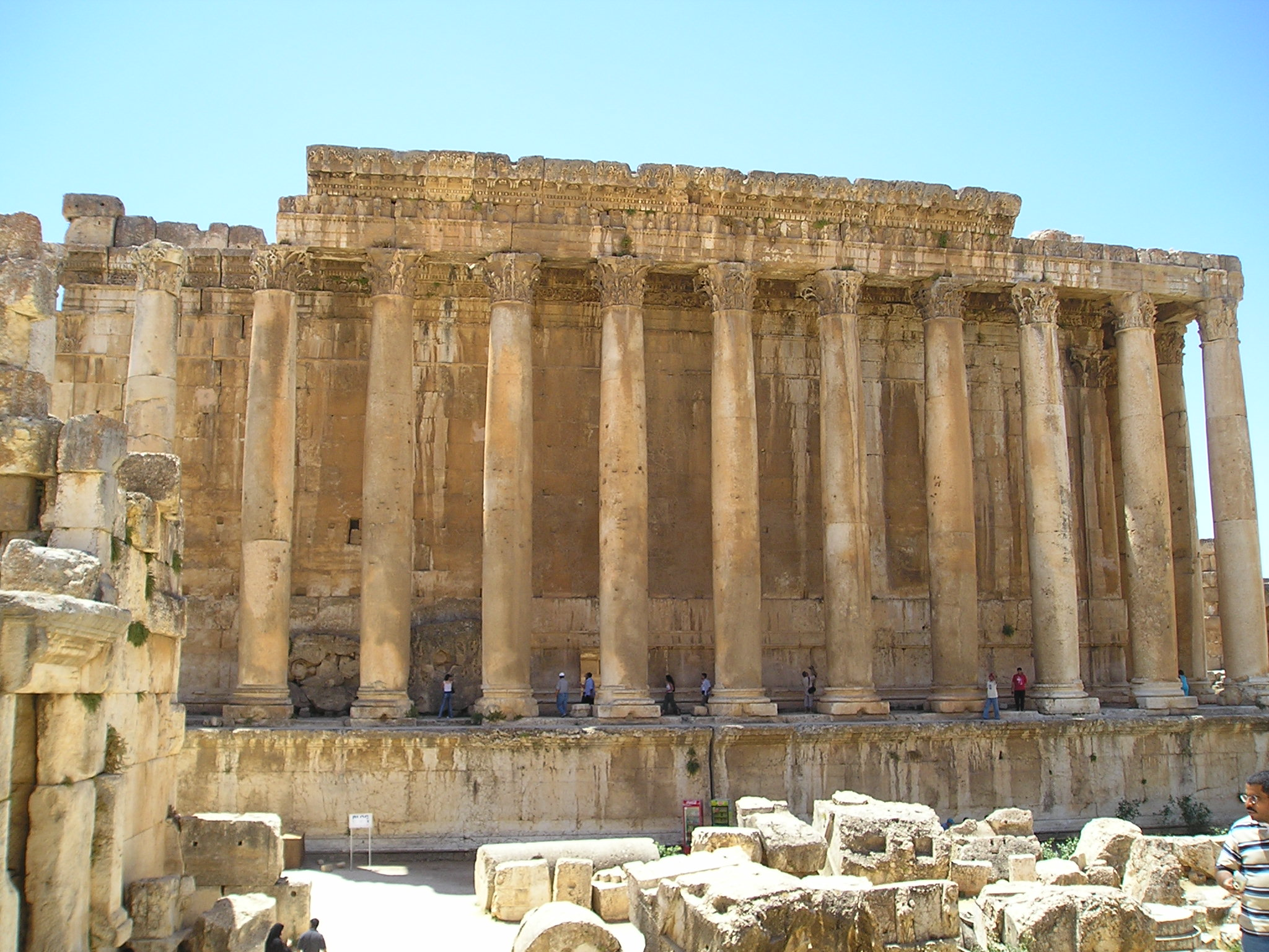 Baalbek, Lebanon - Temple of Bacchus